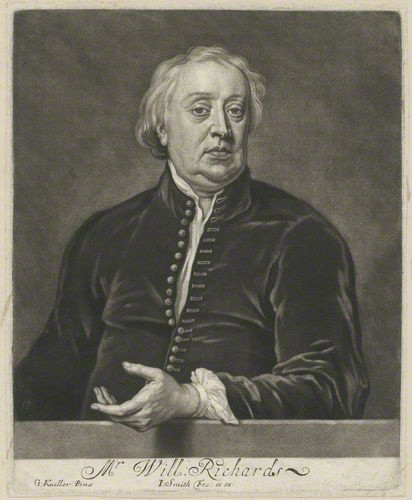 Portrait of William Richards (1643–1705), English clergyman and author.